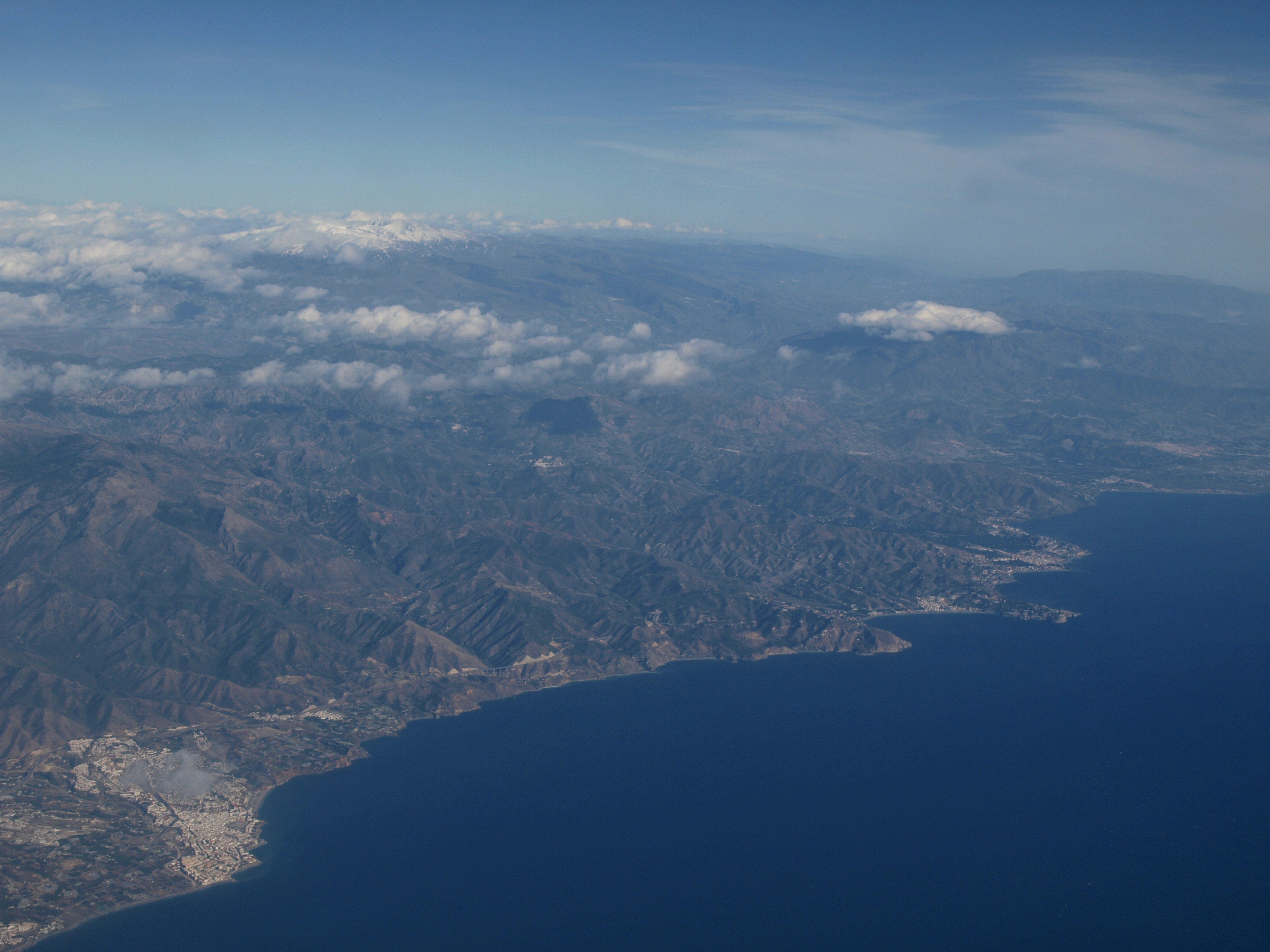 Aerial view of the coast of the provinces of Málaga and Granada with Sierra Nevada on teh background, Spain.